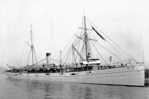 The U.S. Navy training ship USS Buffalo, in 1902.